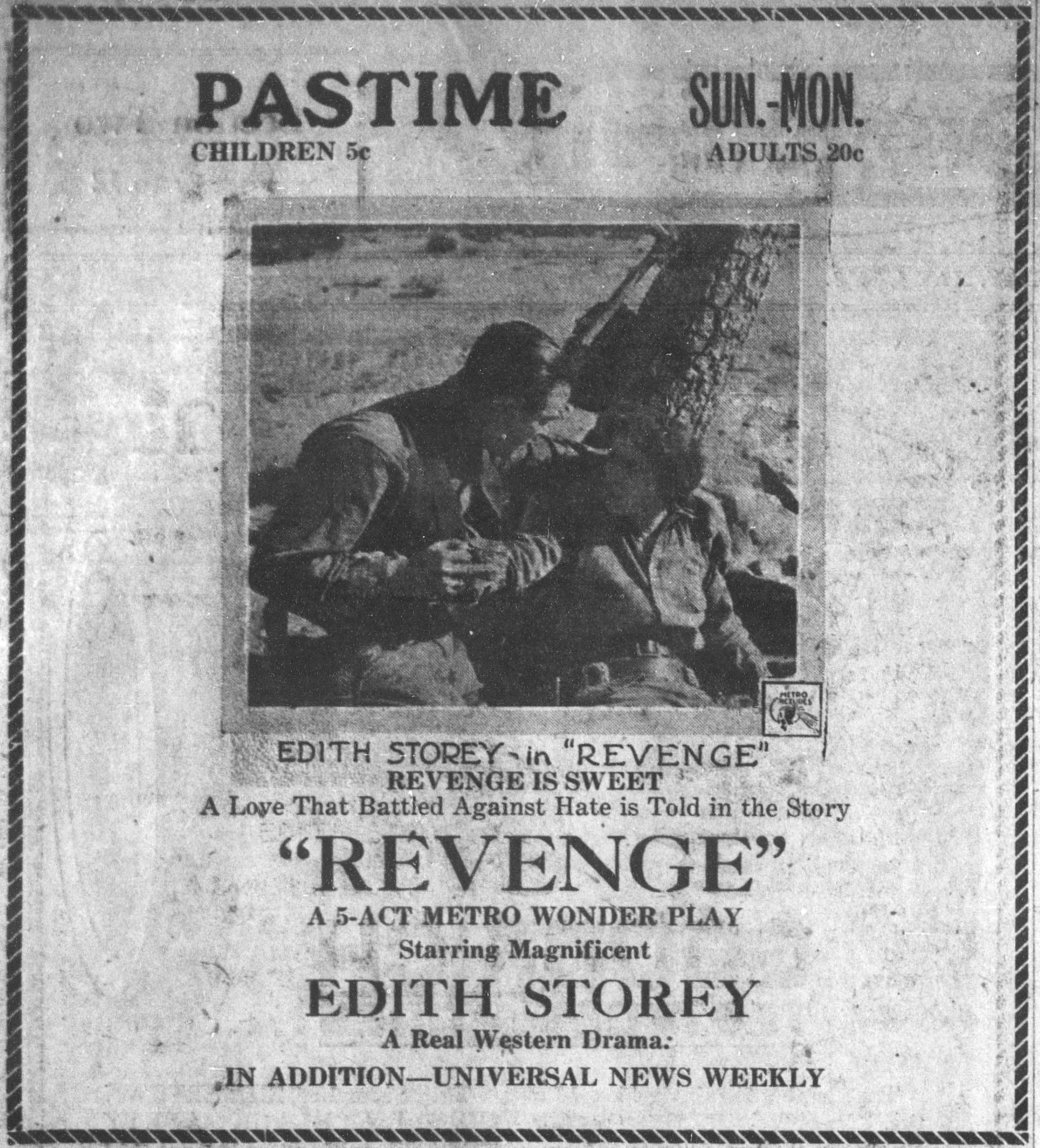 Revenge is a 1918 American western film directed by Tod Browning. Newspaper advert.